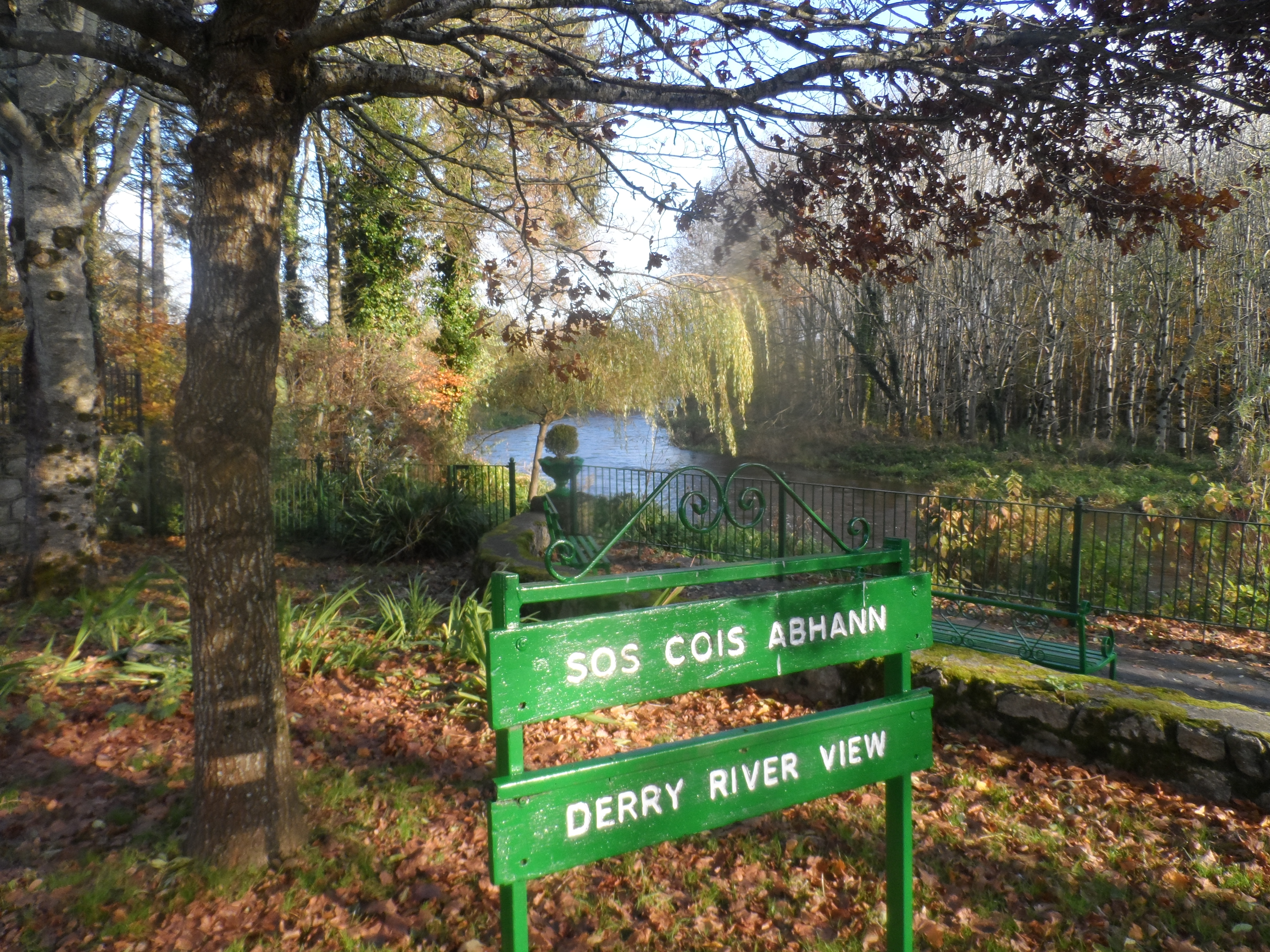 Derry River (Leinster)